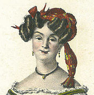 Marie-Julie Halligner-small